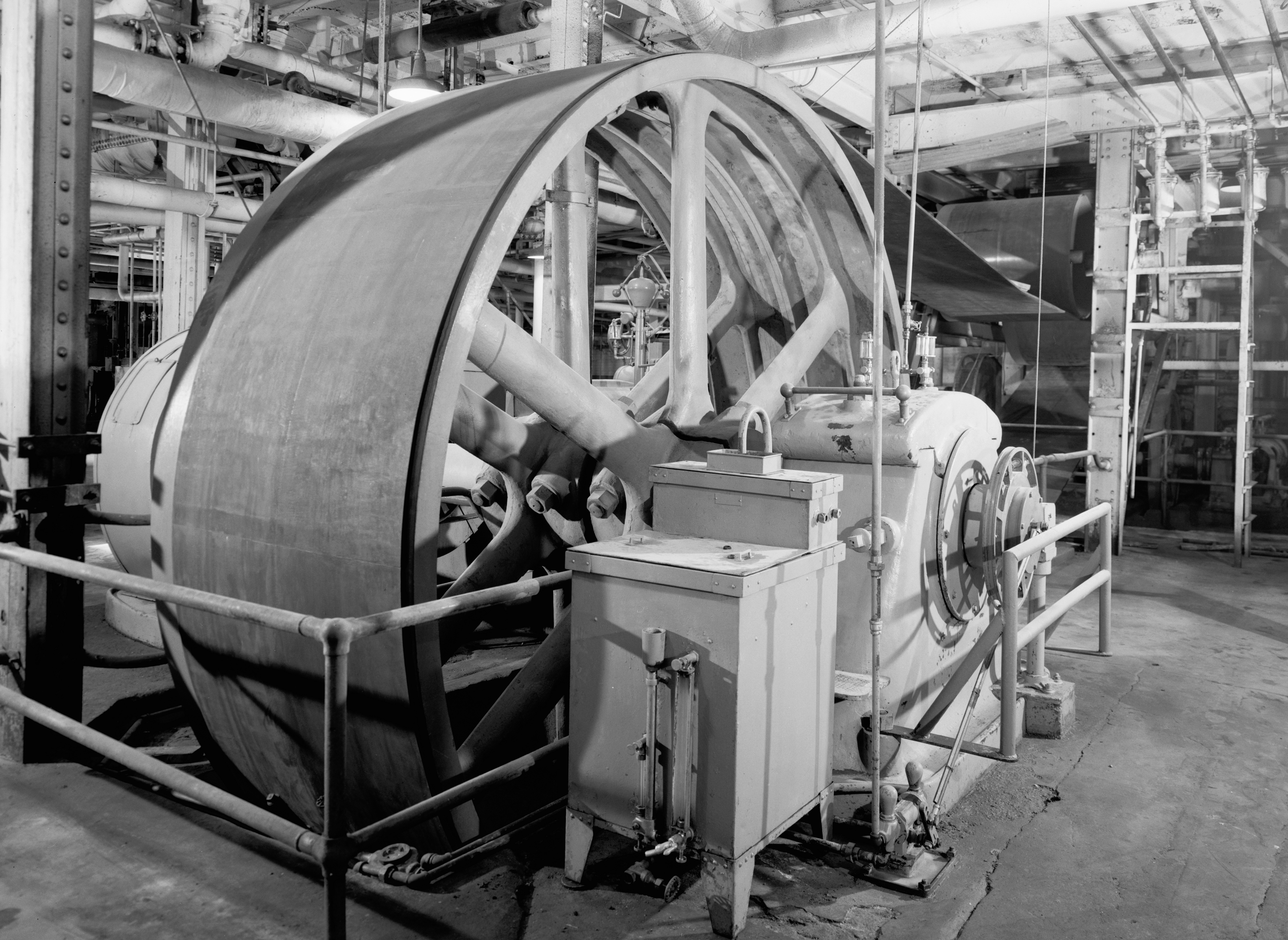 "CORLISS STEAM ENGINE POWER TRANSMISSION SYSTEM. Utah Sugar Company, Garland Beet Sugar Refinery, Factory Street, Garland vicinity, Box Elder County, UT" Survey number HAER UT-19